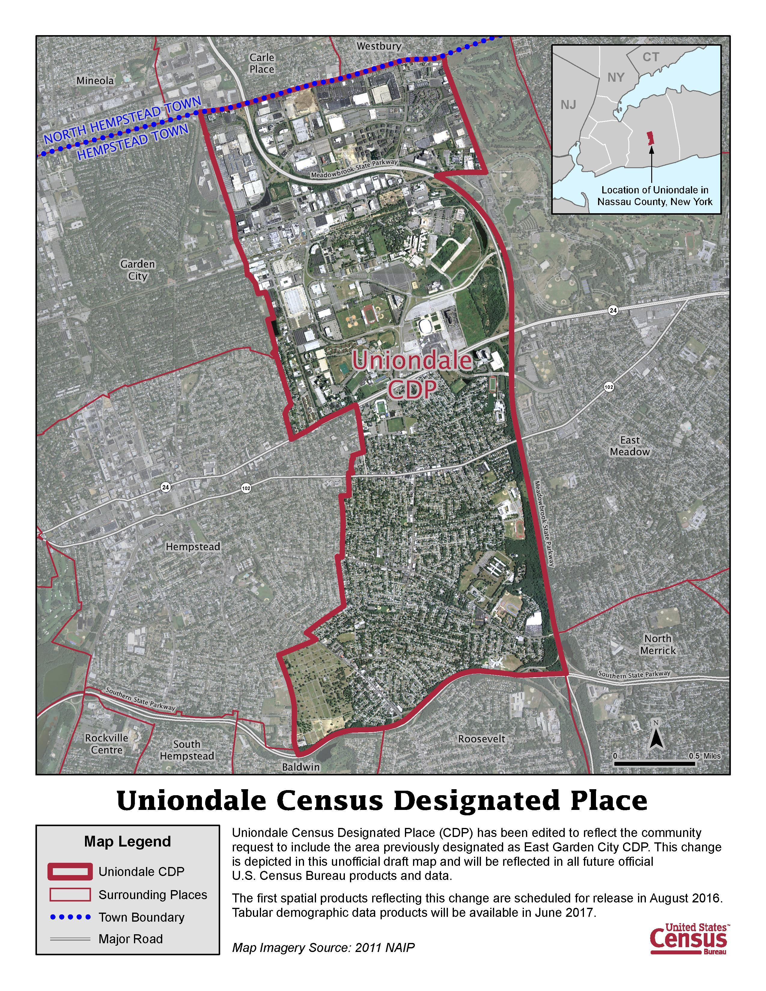 Updated Uniondale, N.Y. map including area formally mislabeled as part of a fictional "East Garden City"